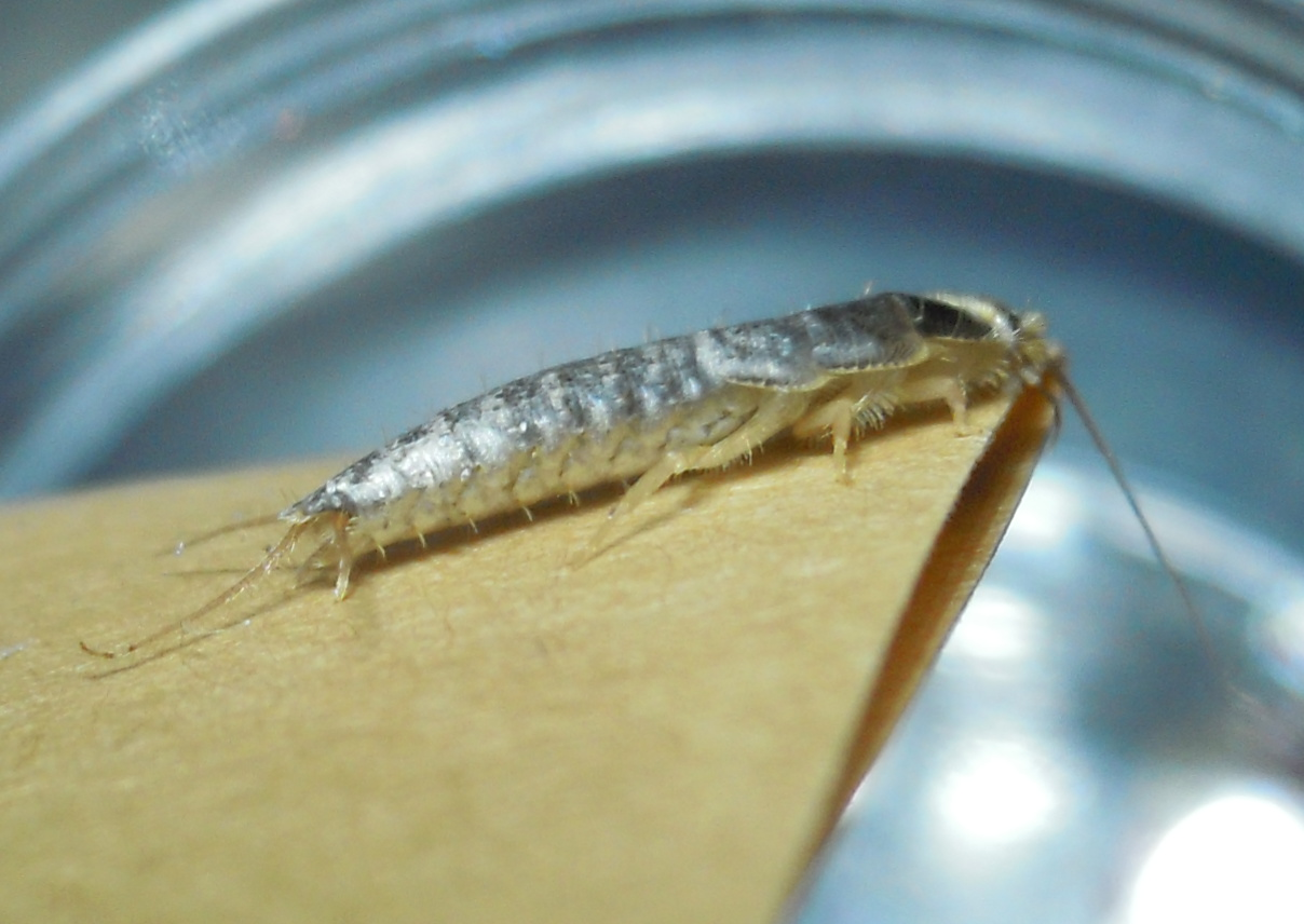 Oriental silverfish (Male, adult, View diagonally from behind) The abdominal limbs and the styli can be clearly seen.